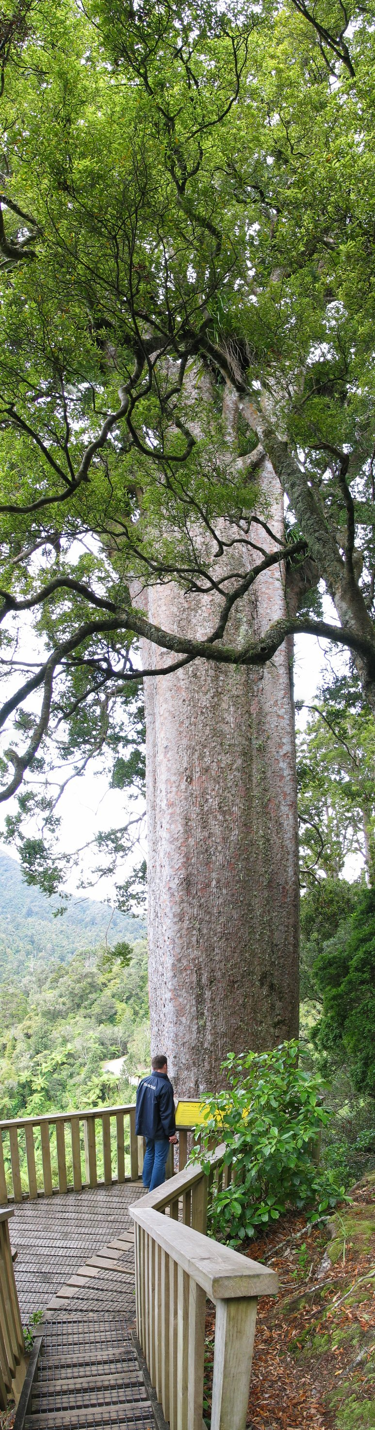 Square Kauri on Coromandel Peninsula, North Island, New Zealand.